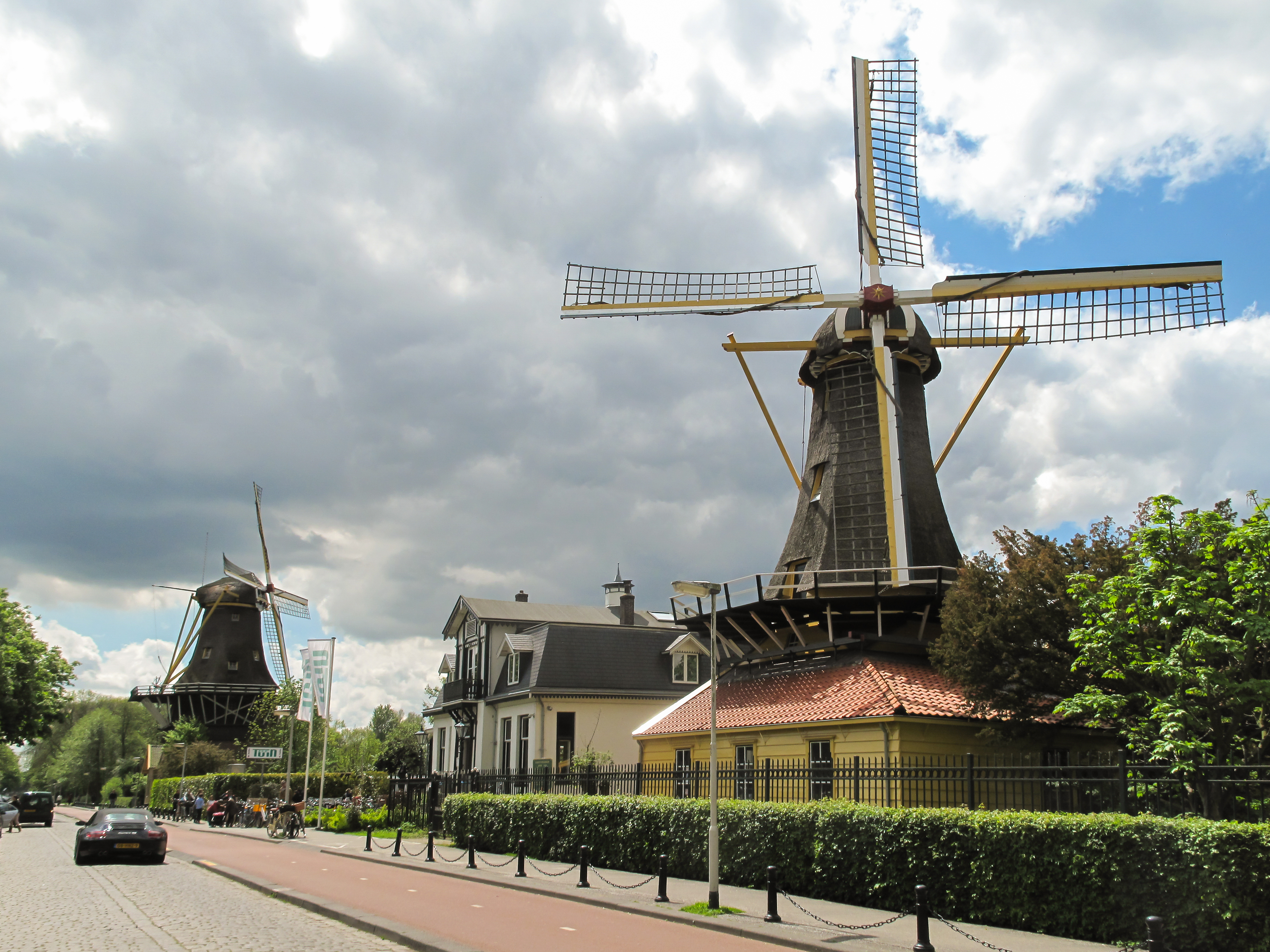 Rotterdam-Kralingen, the two mills near the Kralingse Plas